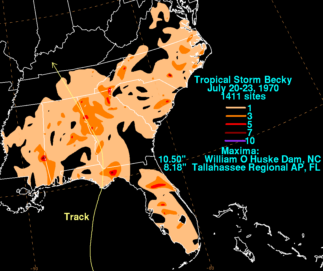 Storm total rainfall map of Tropical Storm Becky during July 1970.